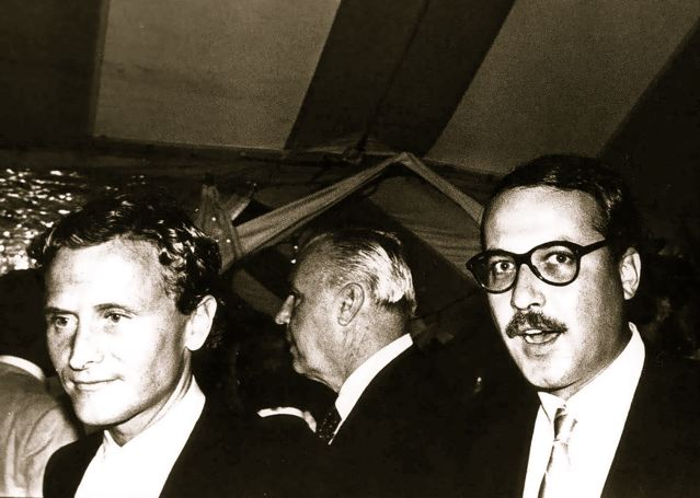 Thomas Ammann & Alexander Schmidheiny